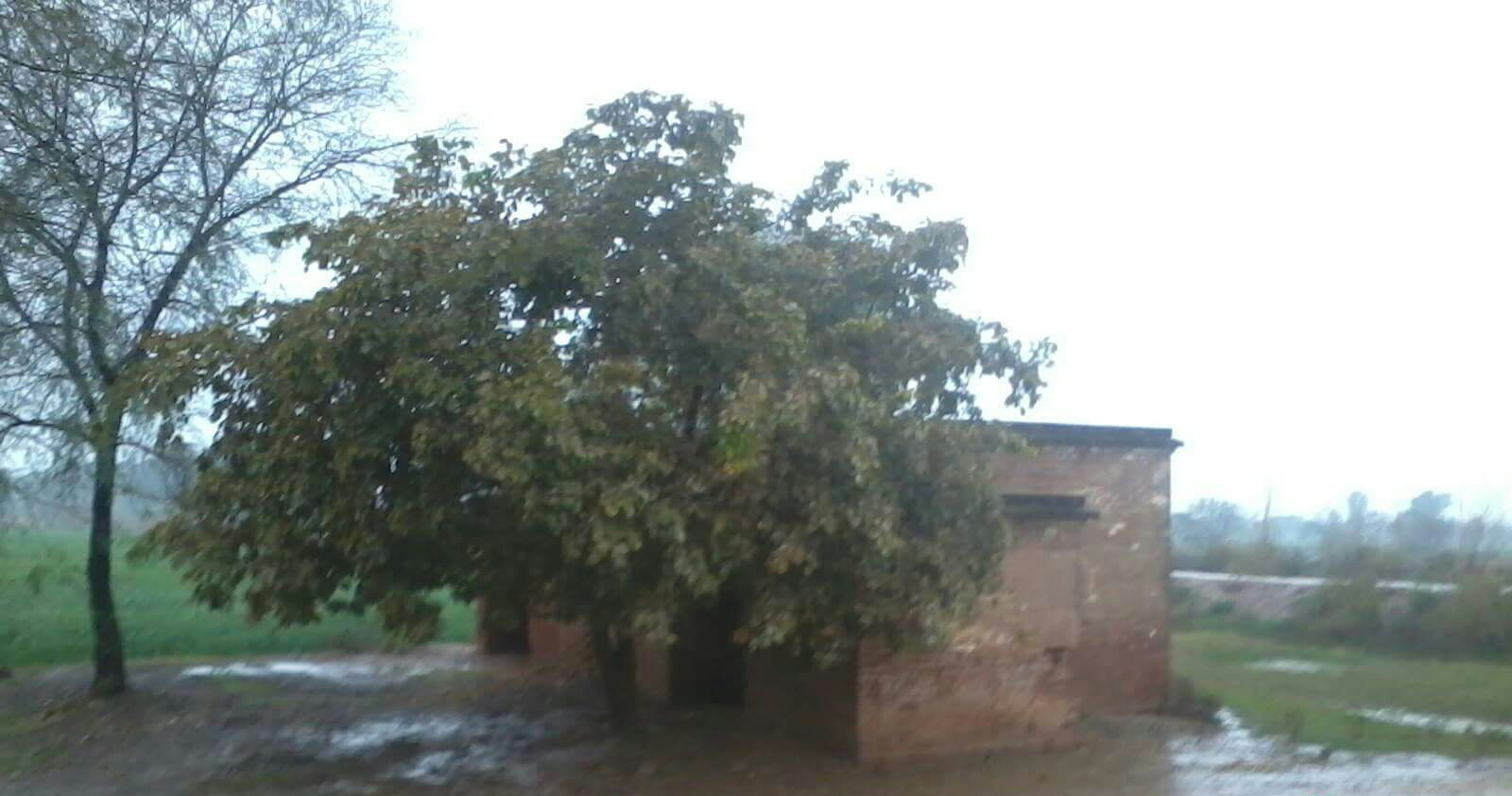 I also Uploaded this Photo on Botala Facebook Page & on website